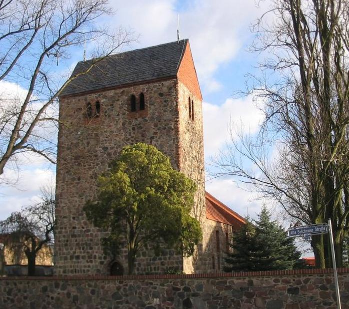 Stonechurch Selchow, built probably in 13th century. The village Selchow is a part of the municipality Schönefeld in the district Dahme-Spree, state Brandenburg, Germany.